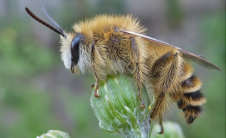 Dasypoda hirtipes male